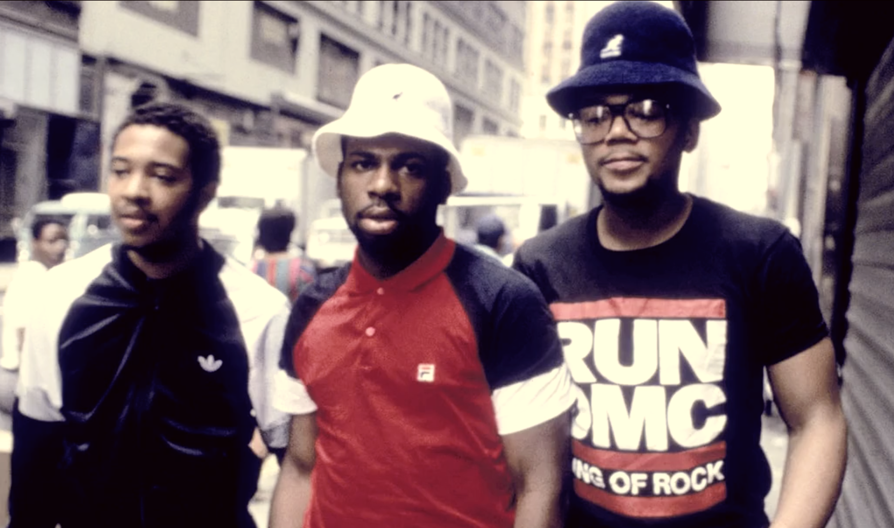 Run DMC: Streets of New York